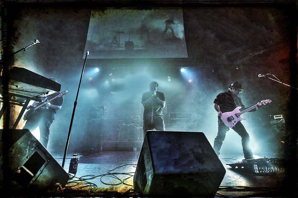 Oz Chiri & Blue Embrace live Circa 2013